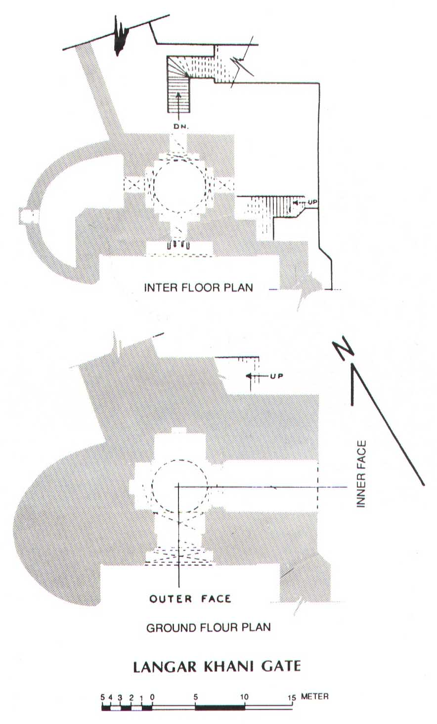 The image is from Architectural Survey of India maps. It was first drawn in "Annual Report of Archaeological Survey of India: 1922-23: Delhi". After 1947(Pakistan) it has been in public domain and been freely used in many books including the book I took it from.